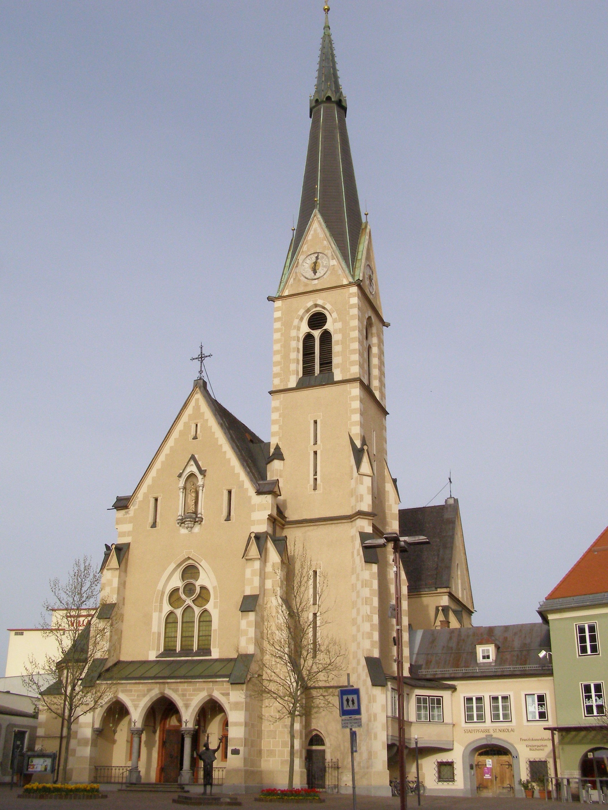 Villach - church of St. Nicholas, Bahnhofstrasse